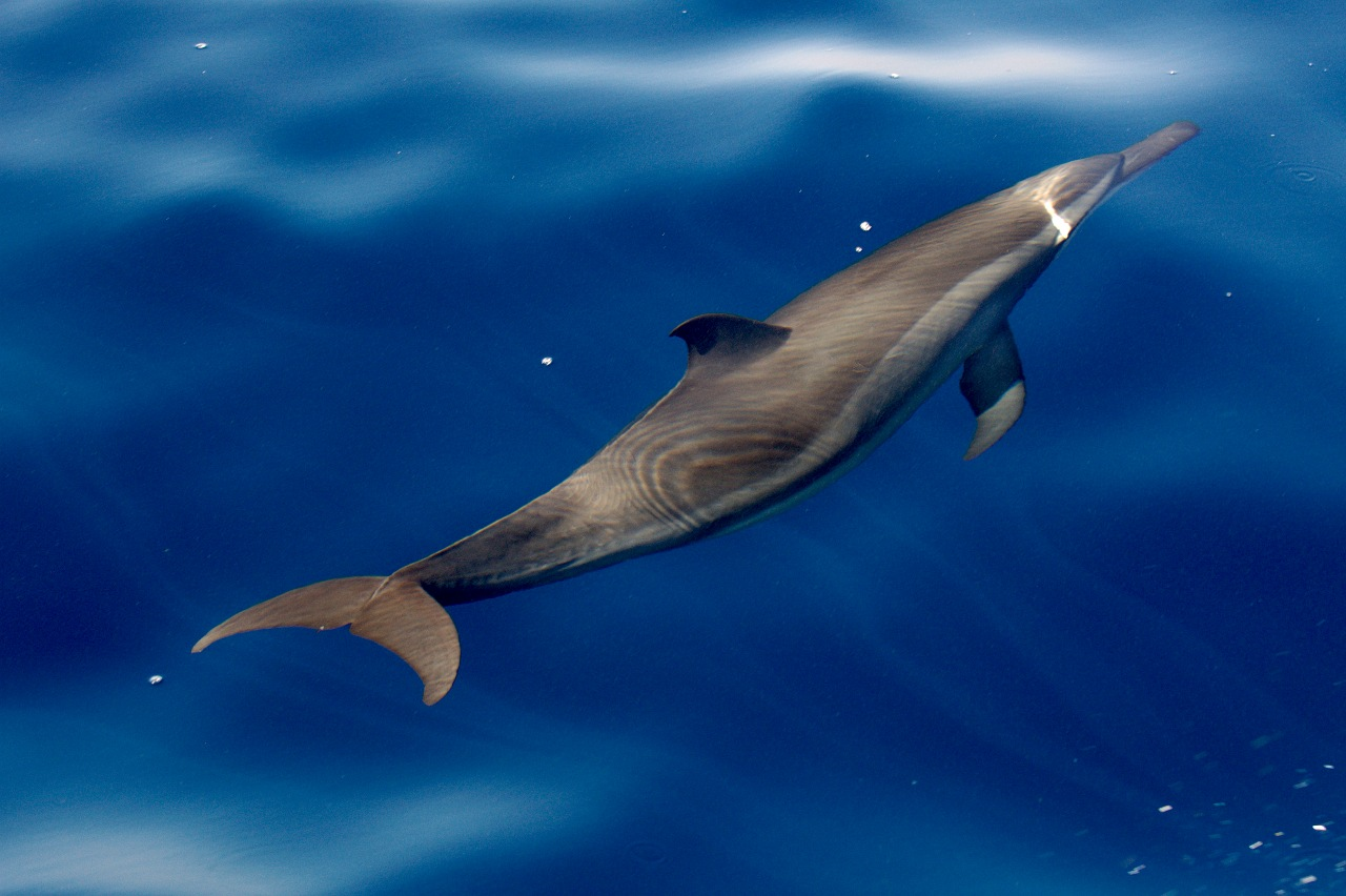 A spinner dolphin in the waters of the Bay of Bengal